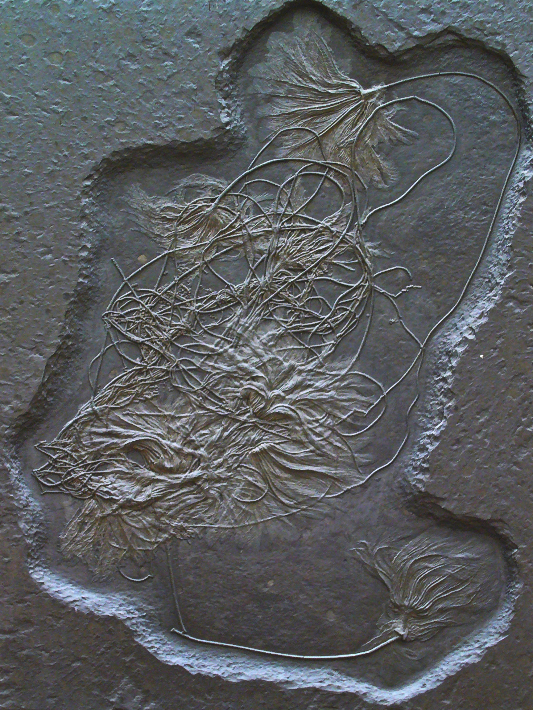 Seirocrinus subangularis (Fam. Pentacrinitidae) in dark mudstone (“oil shale”) of the Posidonia Shale Formation of the Lower Toarcian (Lias ε) of Holzmaden, Baden-Wurttemberg, Germany, on diplay at the Staatliches Museum für Naturkunde Karlsruhe (SMNK), Baden-Wurttemberg, Germany.